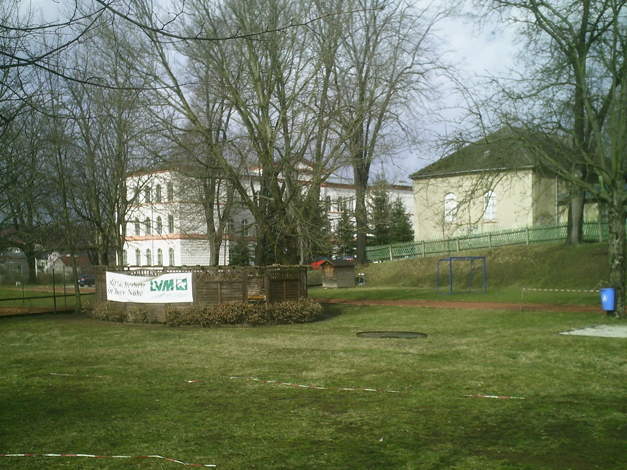 Graues Gebäude und Turnhalle des Freien Gymnasiums Penig